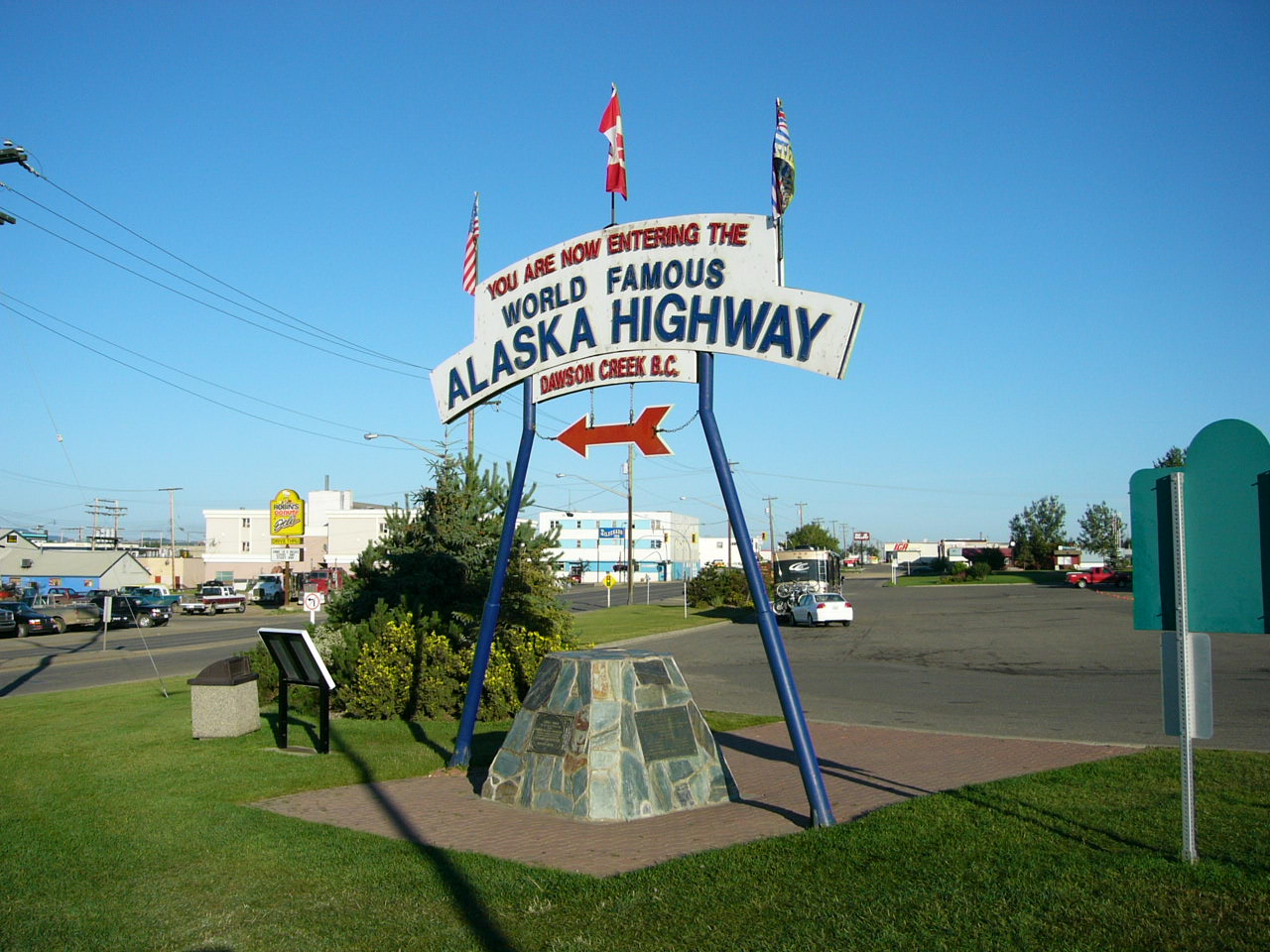 Yufei Yuan on August 10th, 2005. Text of sign reads:You are now entering the world famous Alaska Highway. Dawson Creek, BC